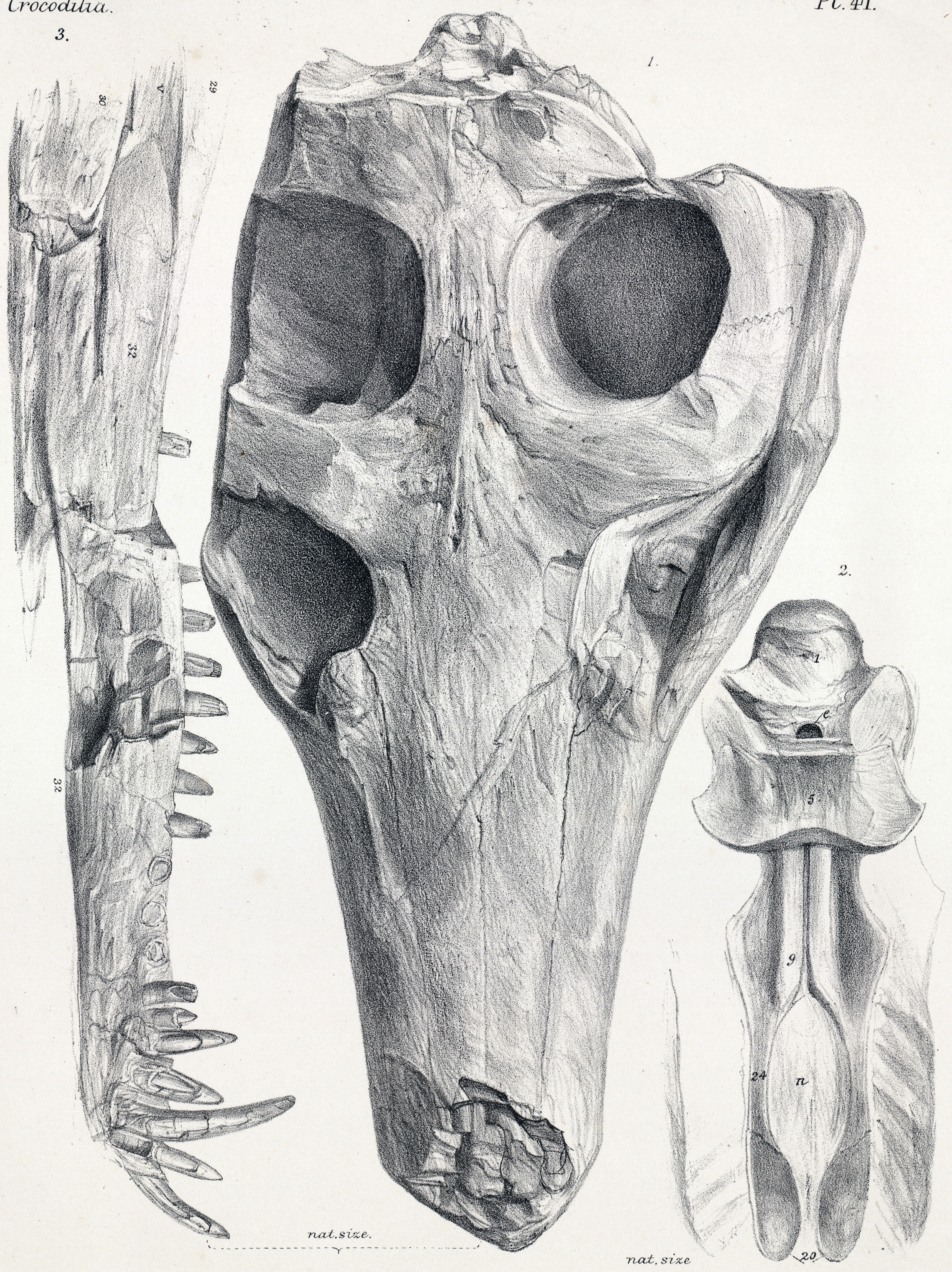 Pholidosaurus purbeckensis (formerly Petrosuchus levidens) fossils. Fig. 1. Portion of skull, upper surface, BMNH 28432. Fig. 2. Portion of skull, palatal surface. Fig. 3. Portion of right ramus of mandible, BMNH 41099. From the Limestone Series of the Middle Purbeck. All the figures are of the nat. size.